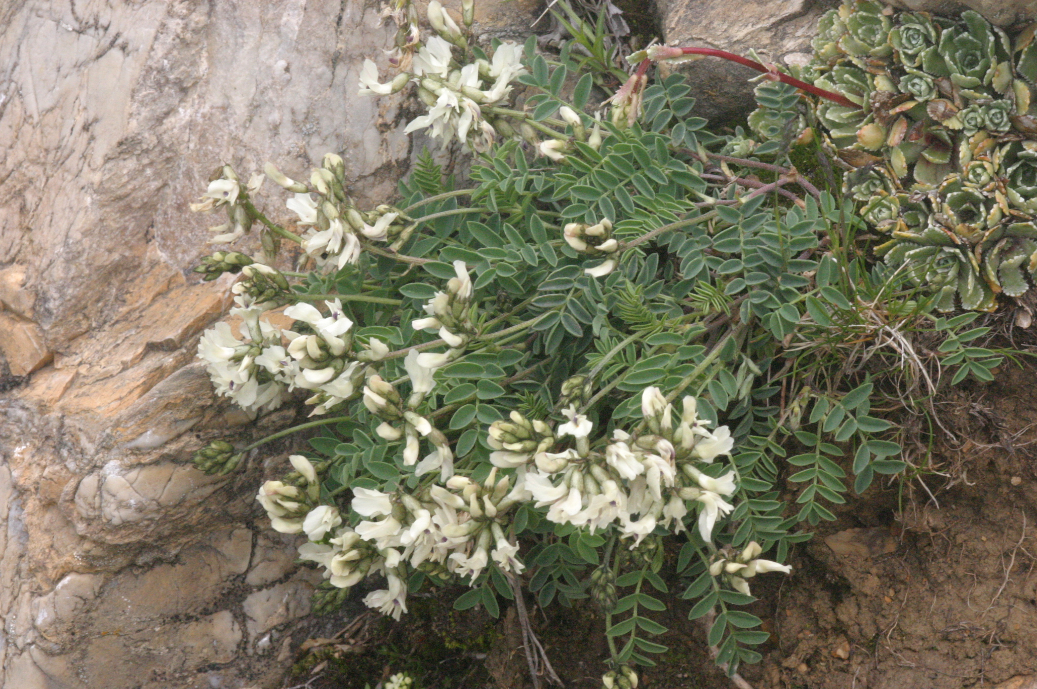 Astragalus australis